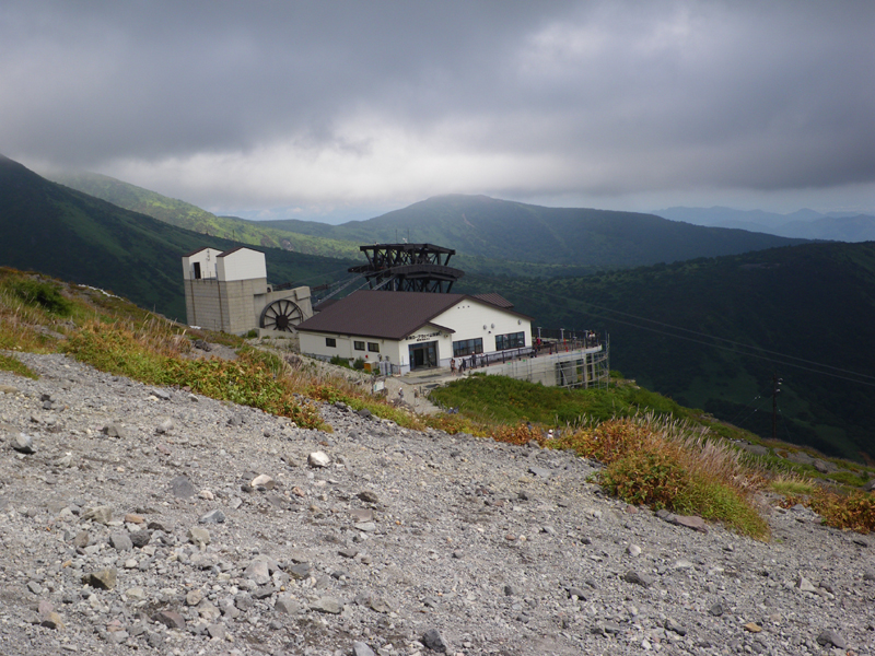 Nasu Ropeway Sancho Station in Nasu Town, Tochigi Prefecture, Japan